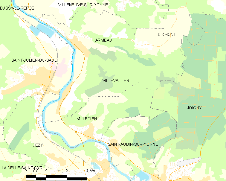 Map of French municipality Villevallier